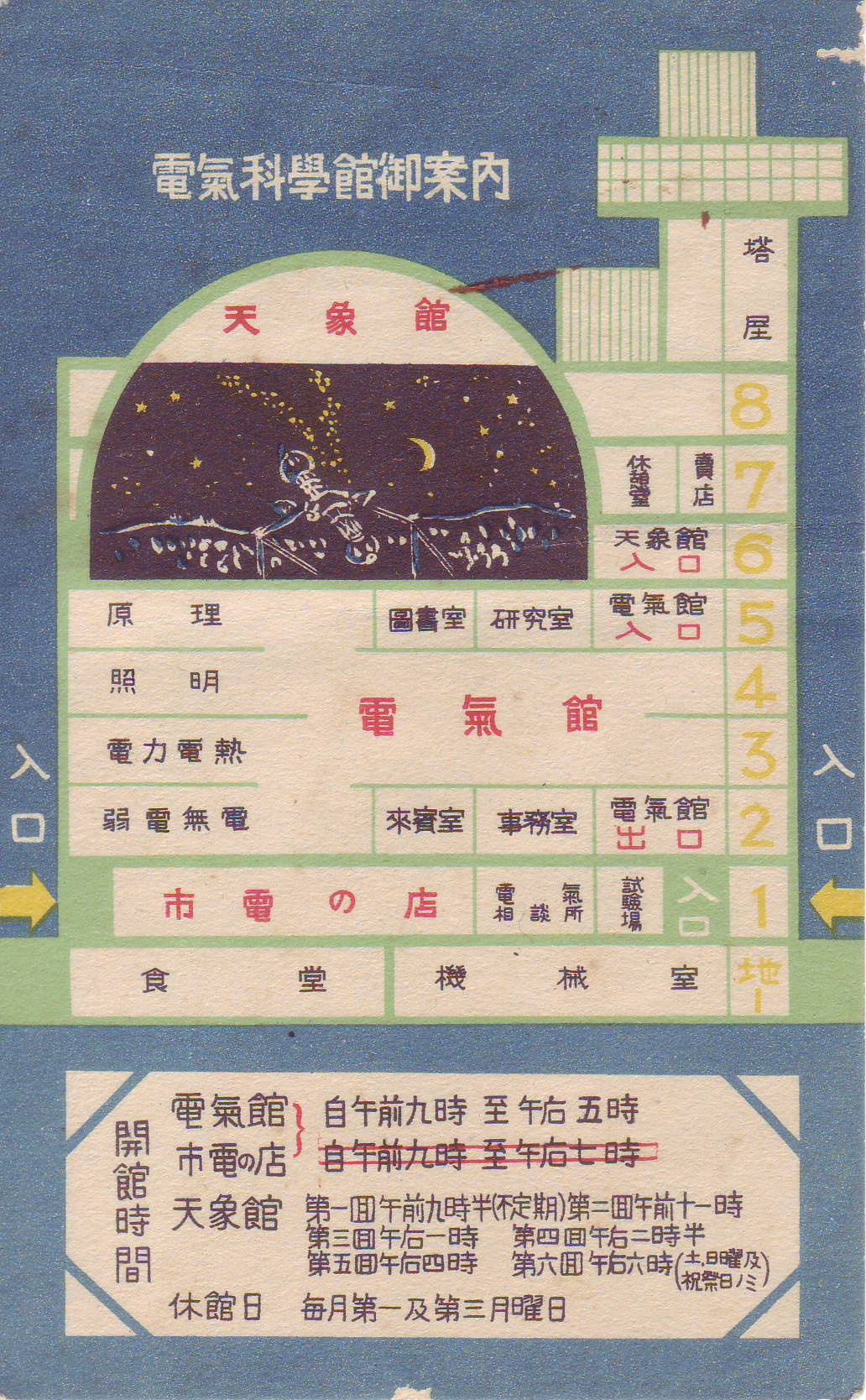 Postcard of Guide in Osaka Electric Science Museum (Before the World War II).